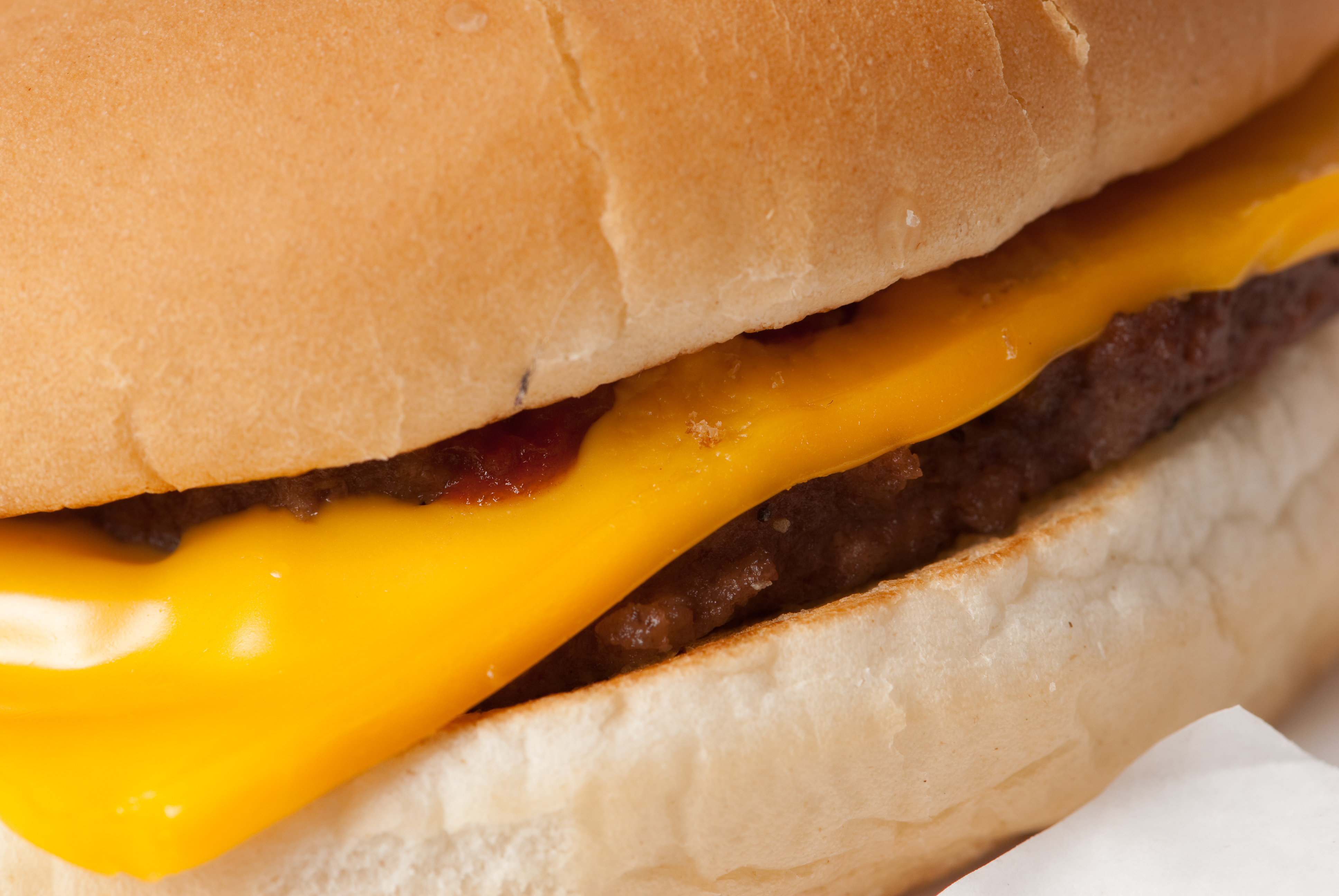 A close shot of the McDouble, a cheeseburger from McDonald's.